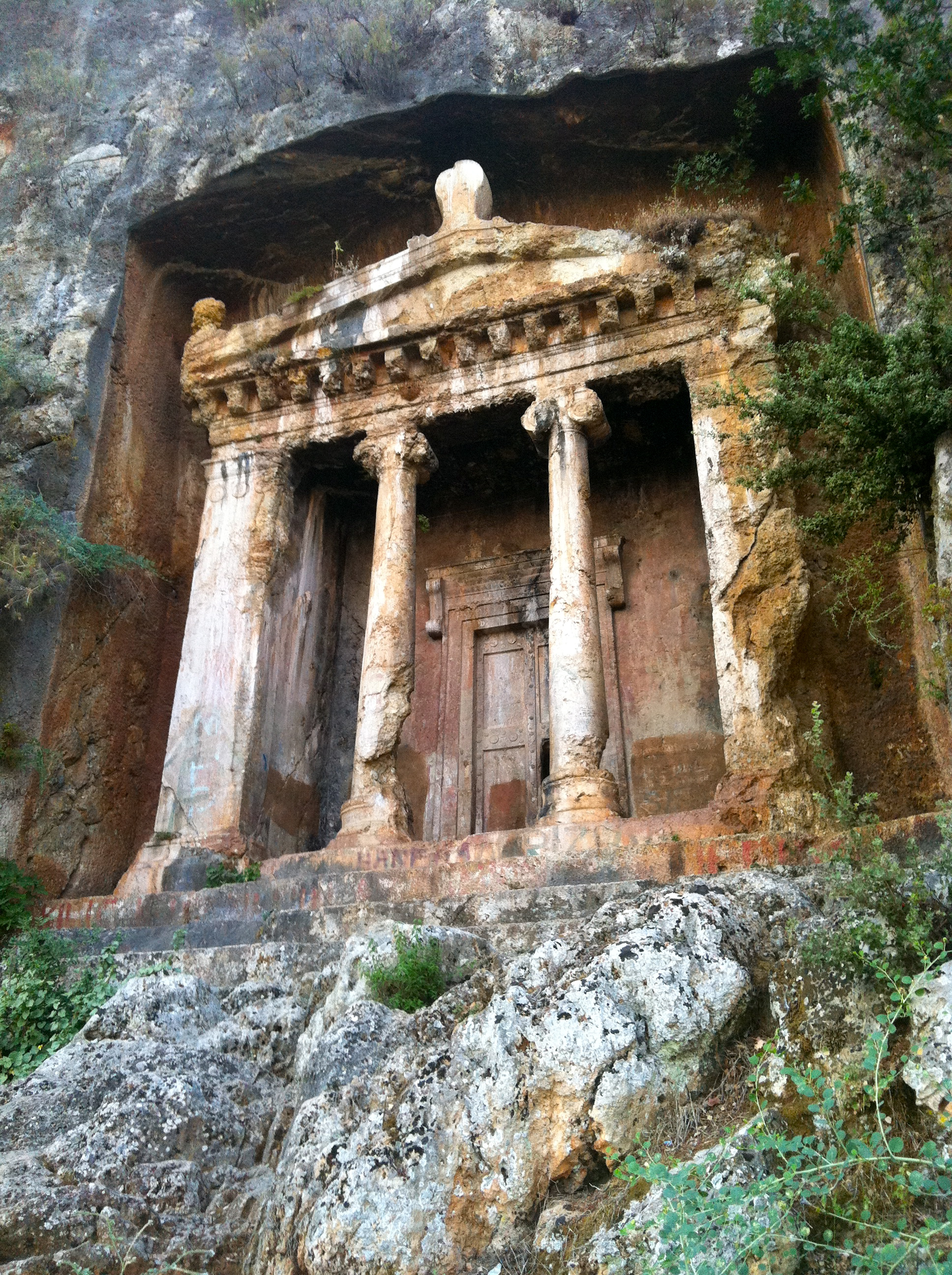 The sign on site says one statue has been destroyed by water seepage and two others damaged.